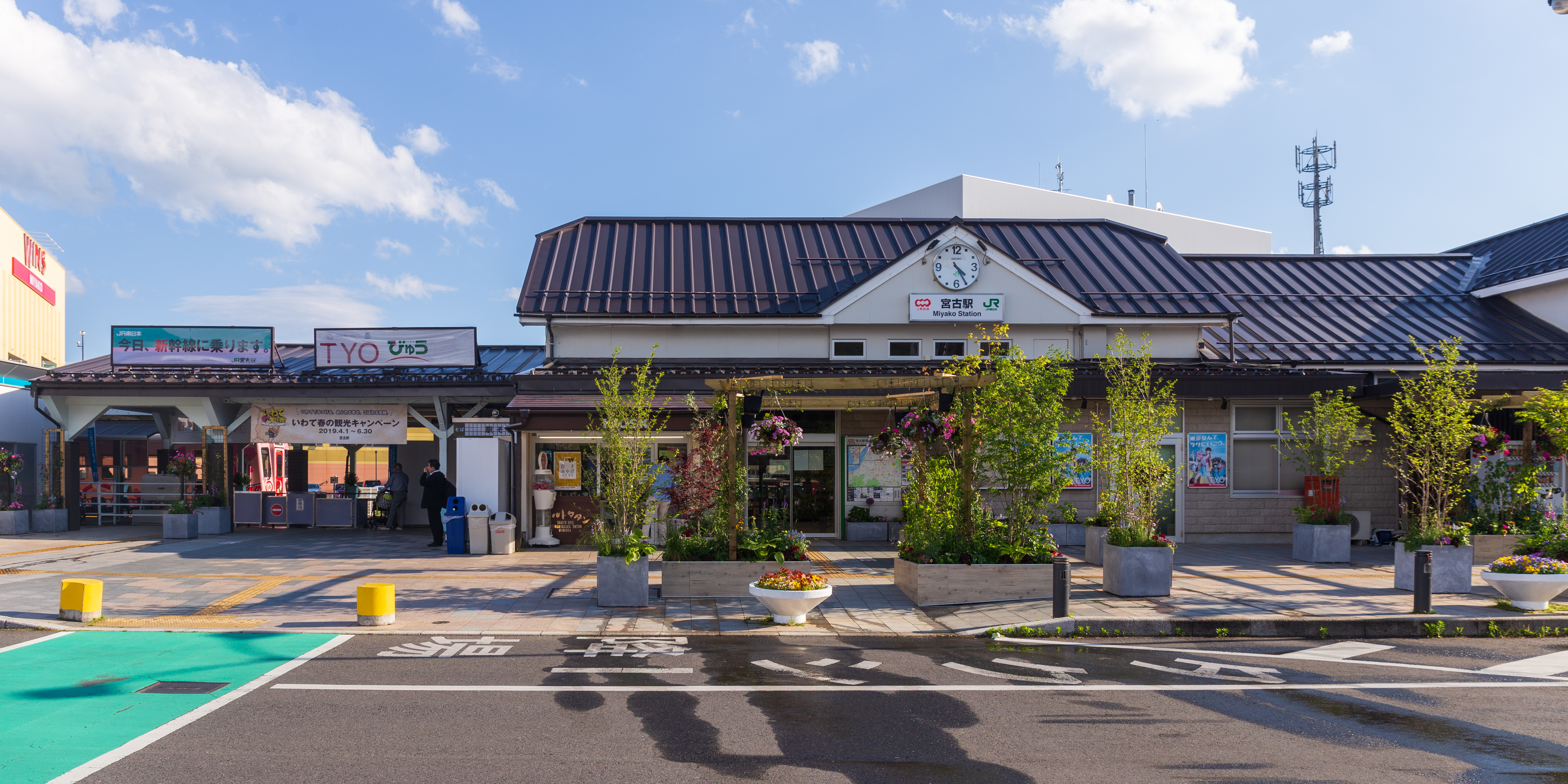 Sanriku Railway and JR East Miyako Station in Miyako City, Iwate Prefecture, Japan